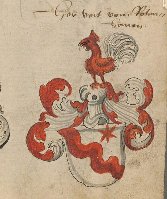 coat of arms of the Franconian family Rotenhahn